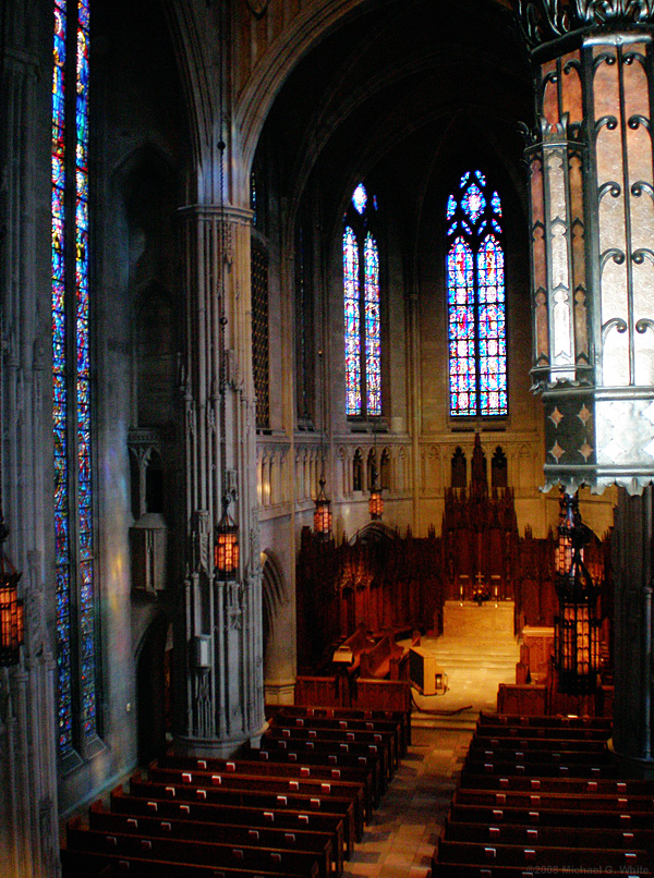 Heinz Memorial Chapel at the University of Pittsburgh, photo by Michael G. White